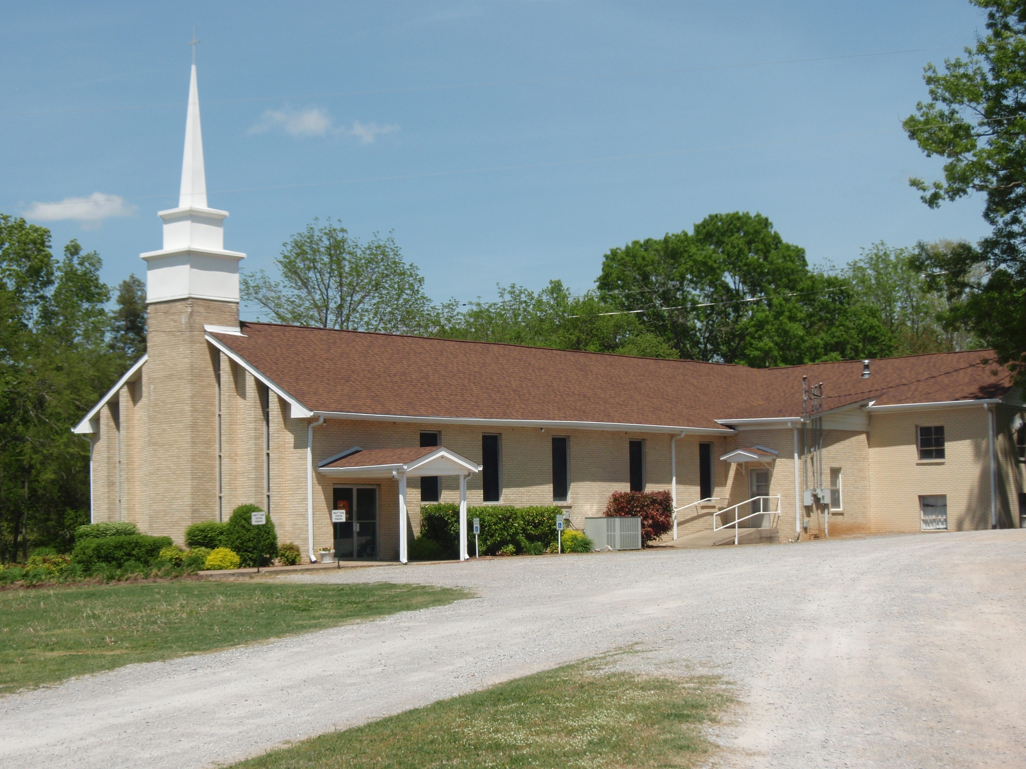 Laguardo Baptist Church in Laguardo, Tennessee, U.S.A.